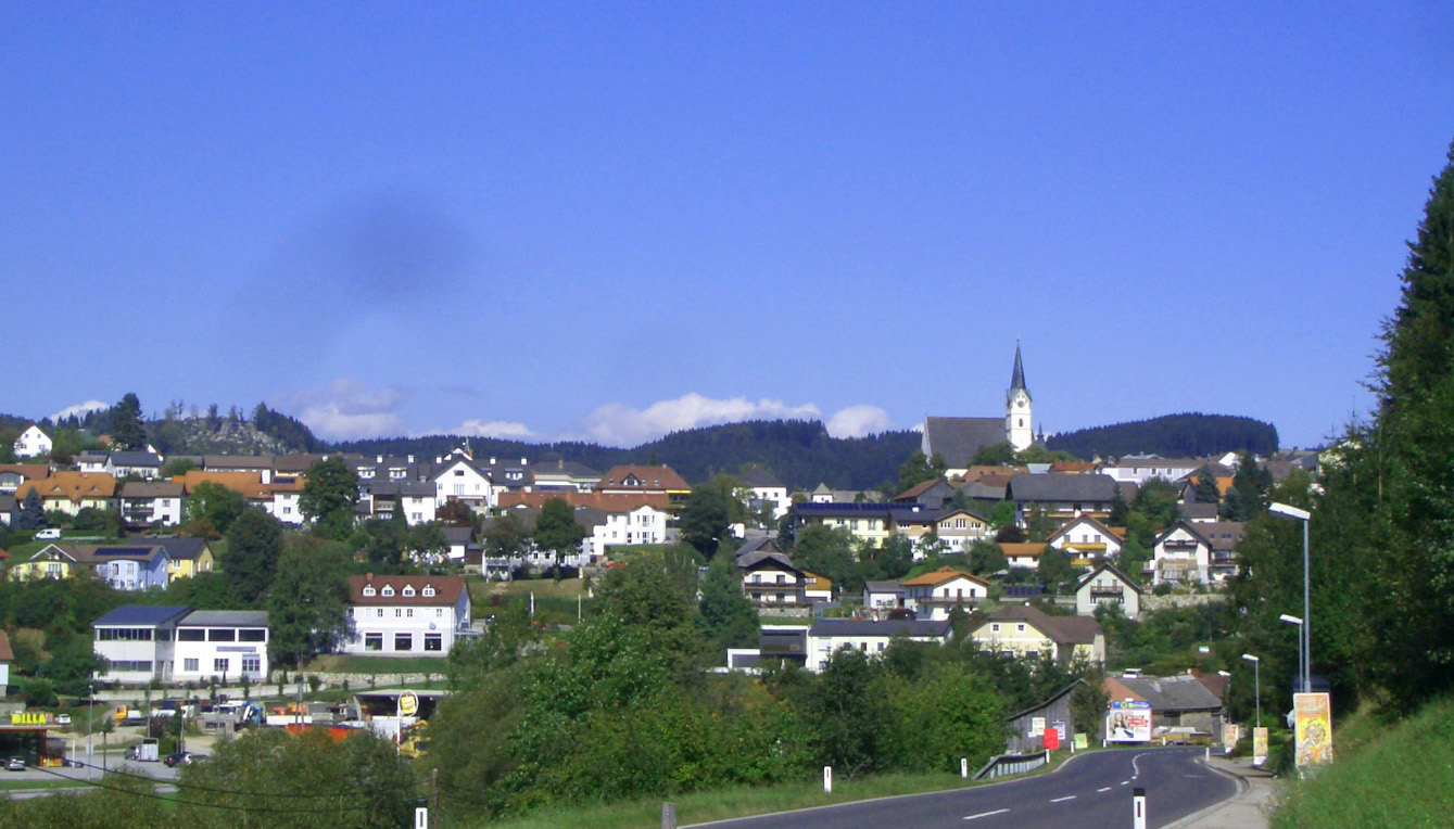 Königswiesen, Upper Austria